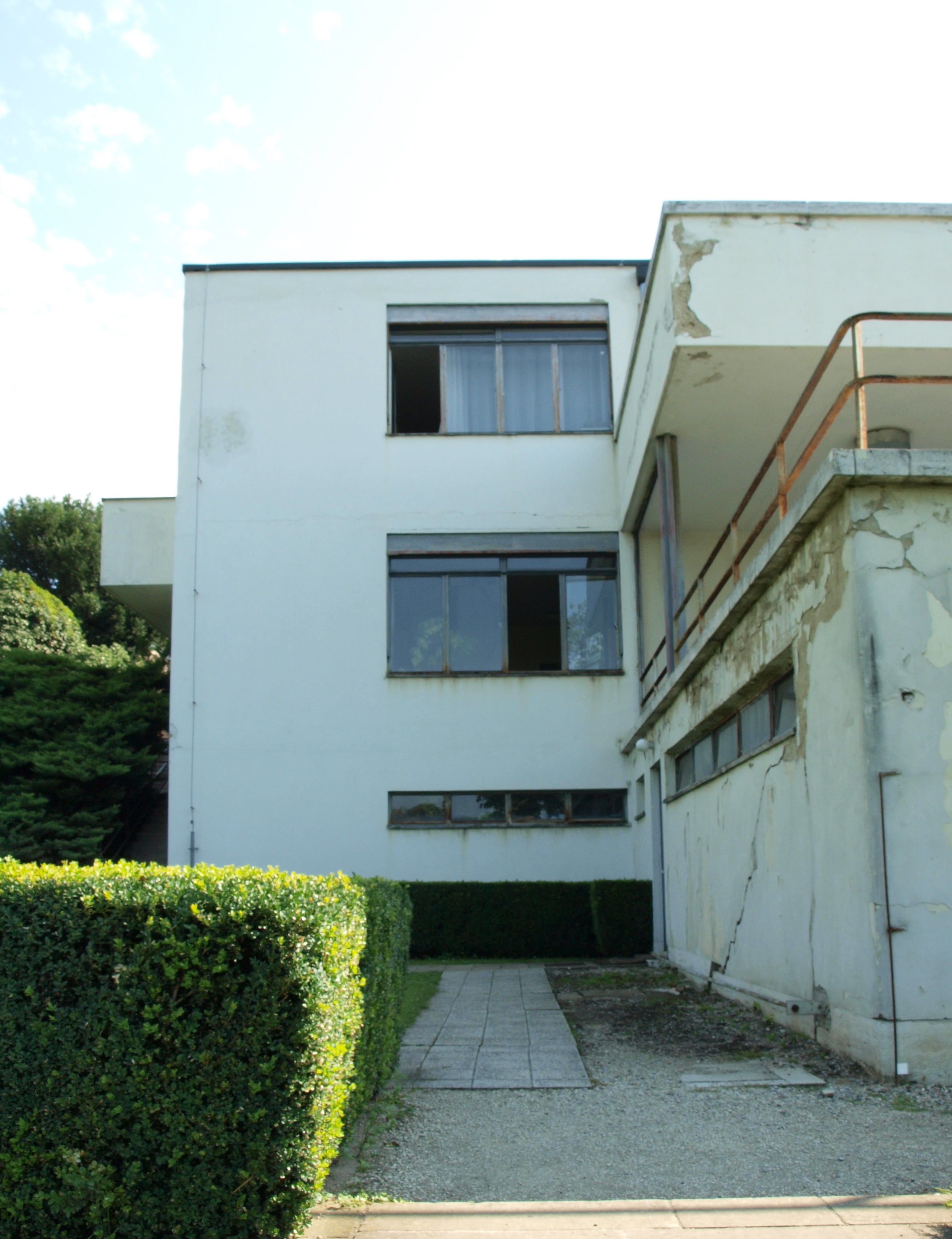 Villa Tugendhat, Brno